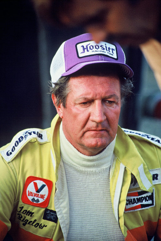 Tom Bigelow looking very sad at a Sprint Car race